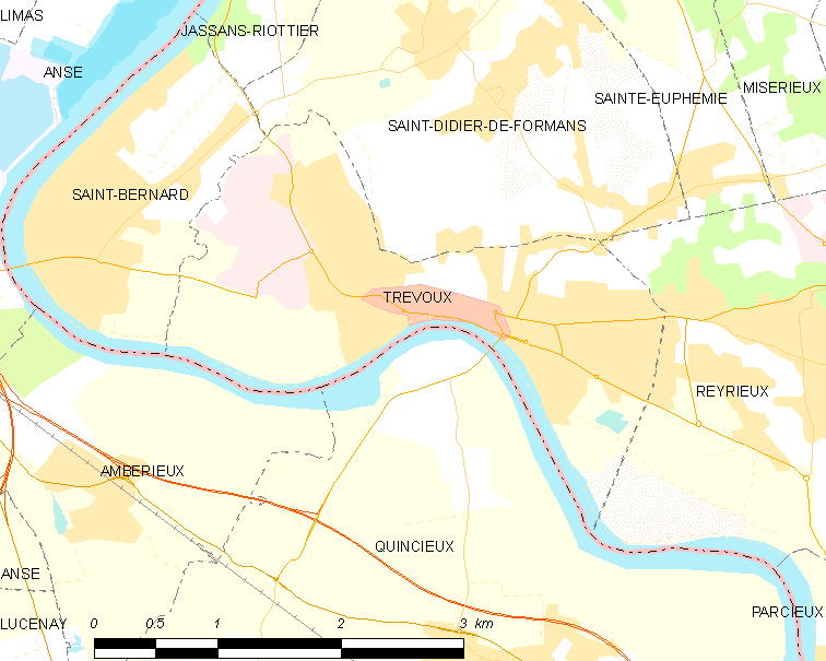 Map of French commune: Trévoux Map commune FR insee code 01427.png